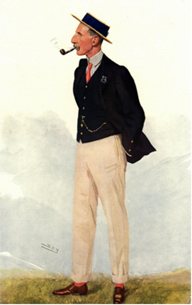 Rowe, George Duncan - “A Celebrated Oarsman who prefers cricket to rowing and golf to both” .